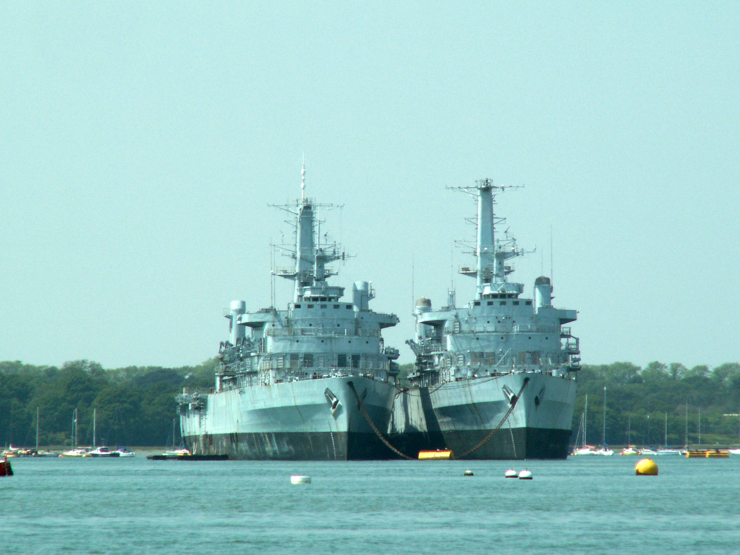 Fearless & Intrepid, Portsmouth, UK.